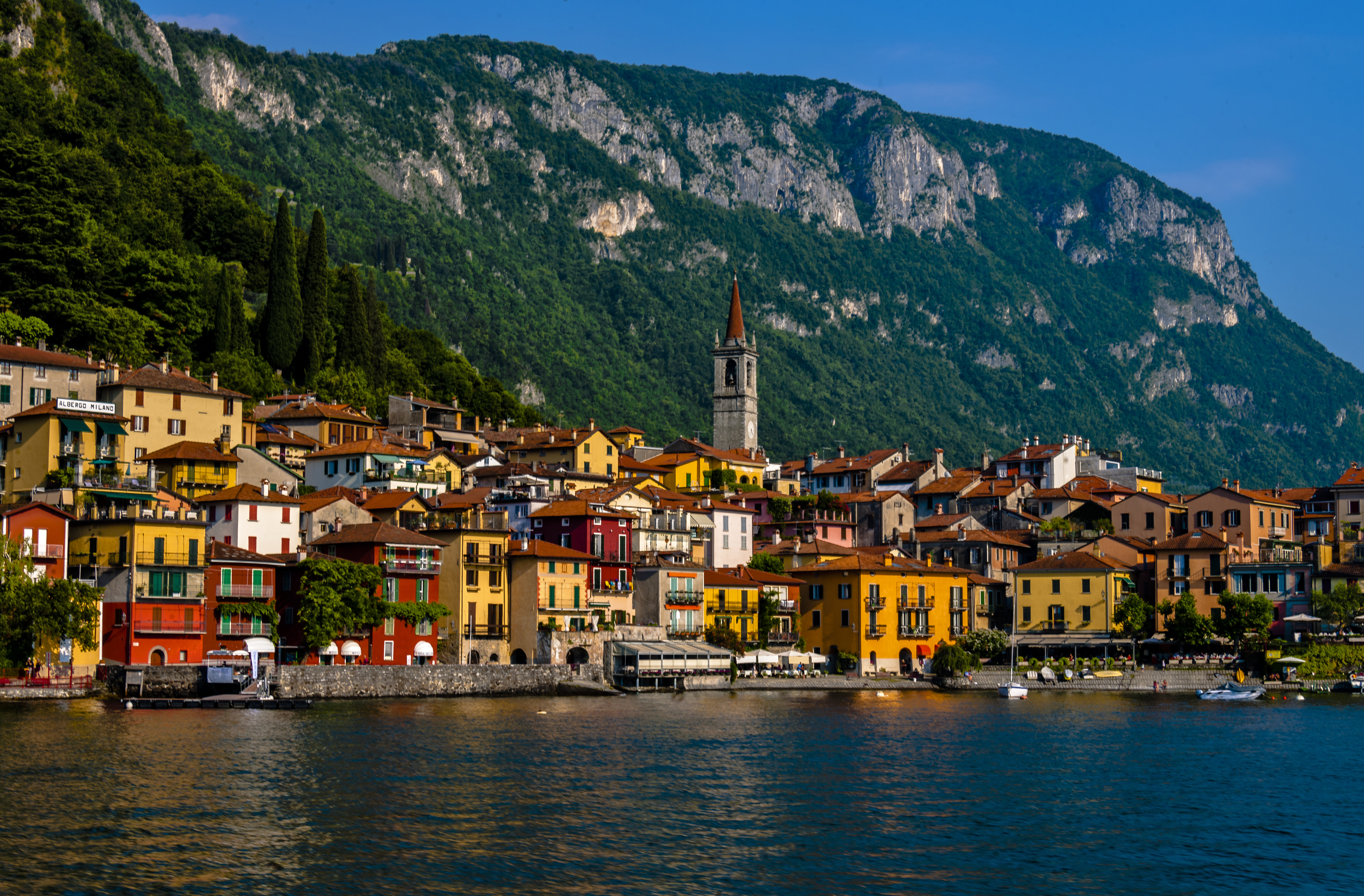 Varenna and the mountains behind it from a docking ferry